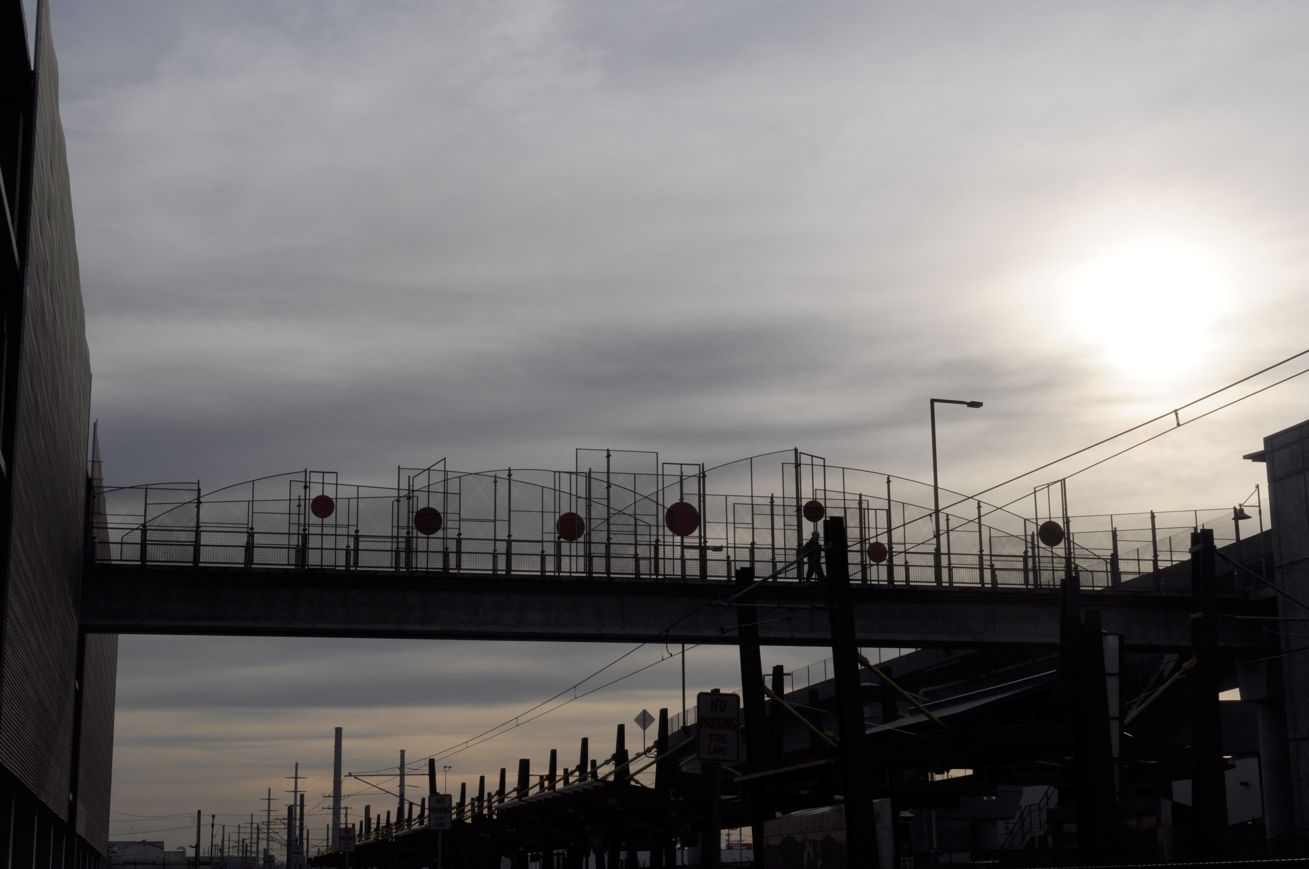 King County METRO employees' overpass over Sound Transit Light Link Rail tracks, just south of 6th Avenue and Royal Brougham Way, Seattle, Washington.